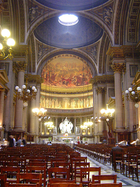 Interior of the Église de la Madeleine, Paris Image by ChrisO